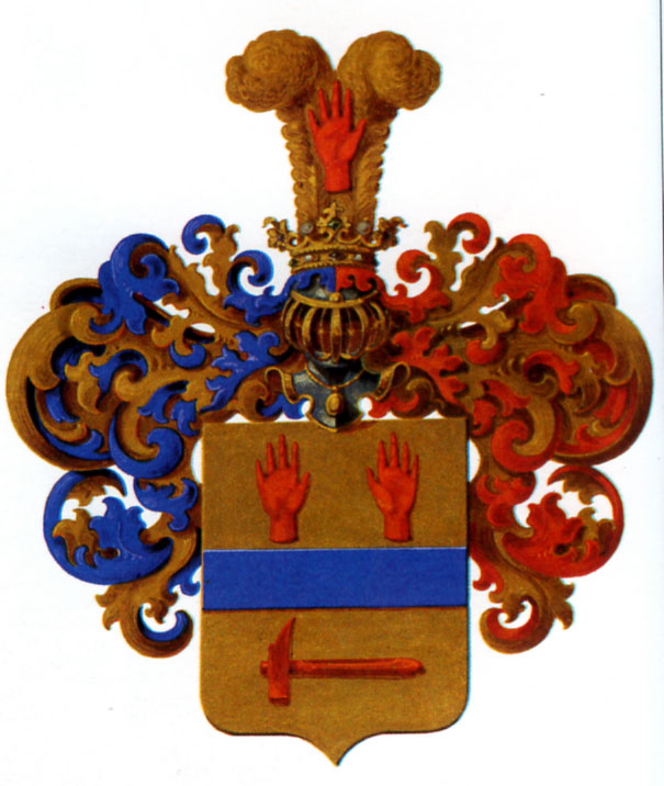 Coat of Arms of Malama family